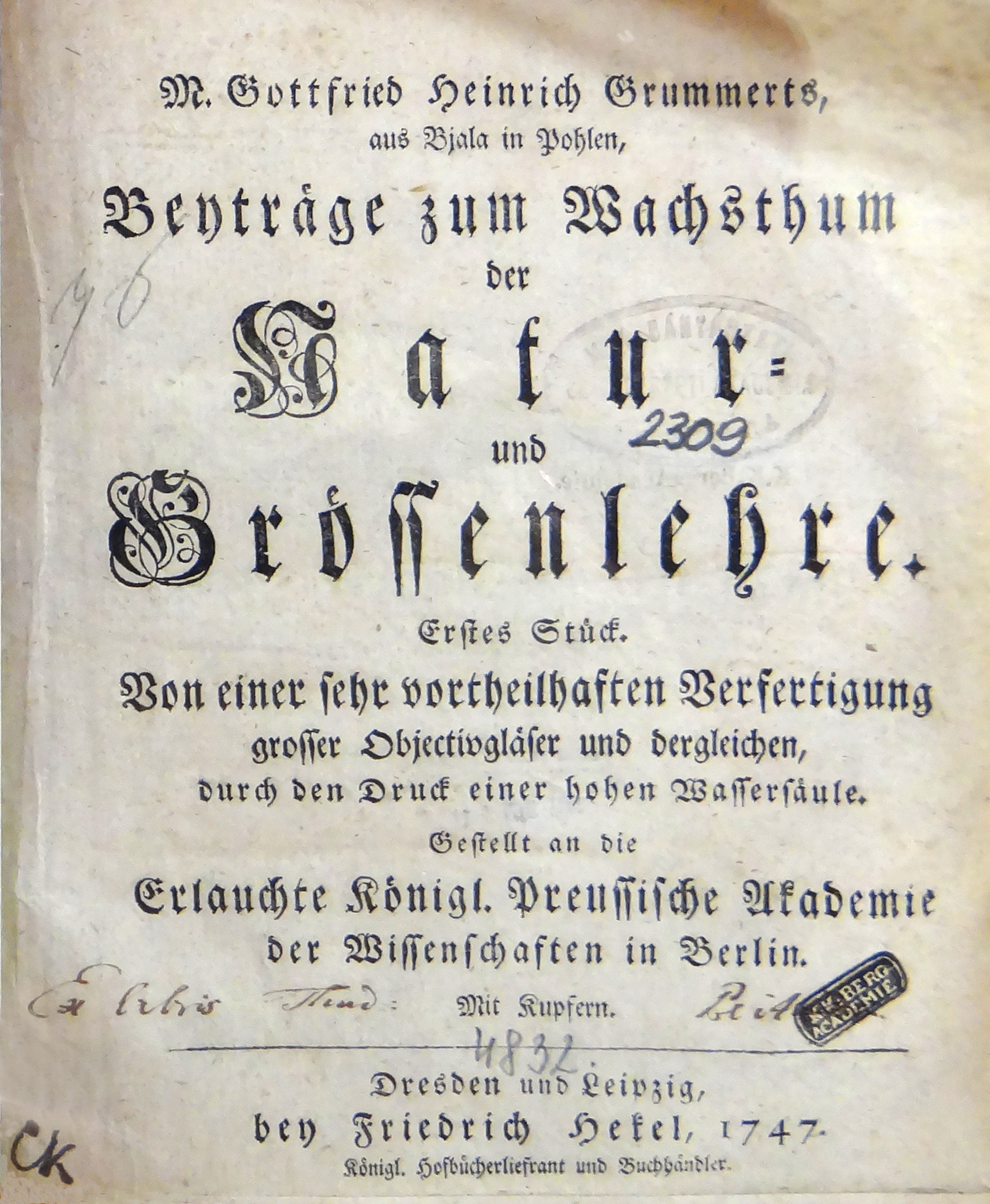 Gottfried Heinrich Grummerts: Beyträge zum Wachsthum der Natur- und Grössenlehre, 1747 (Selmec Museum Library)